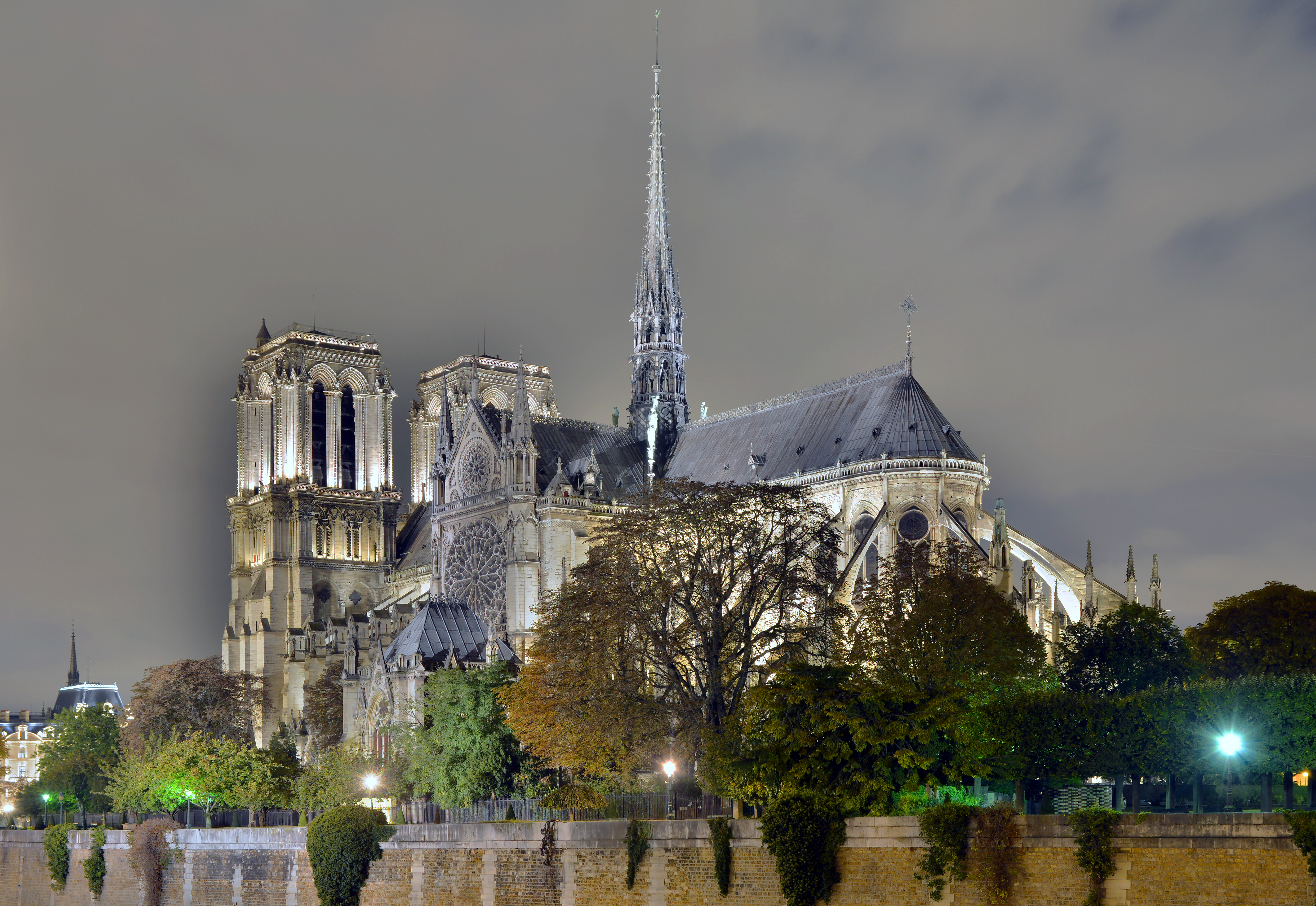 Notre-Dame de Paris from the Pont de l'Archevêché by Night